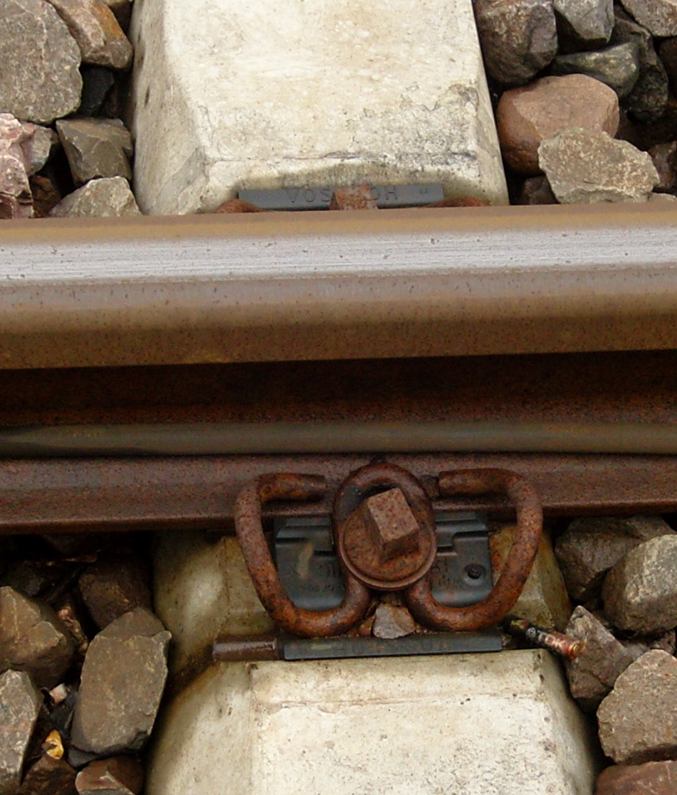 Oberbau W rail fastening on concrete sleeper, station track, Neubrücke(Nahe), Germany